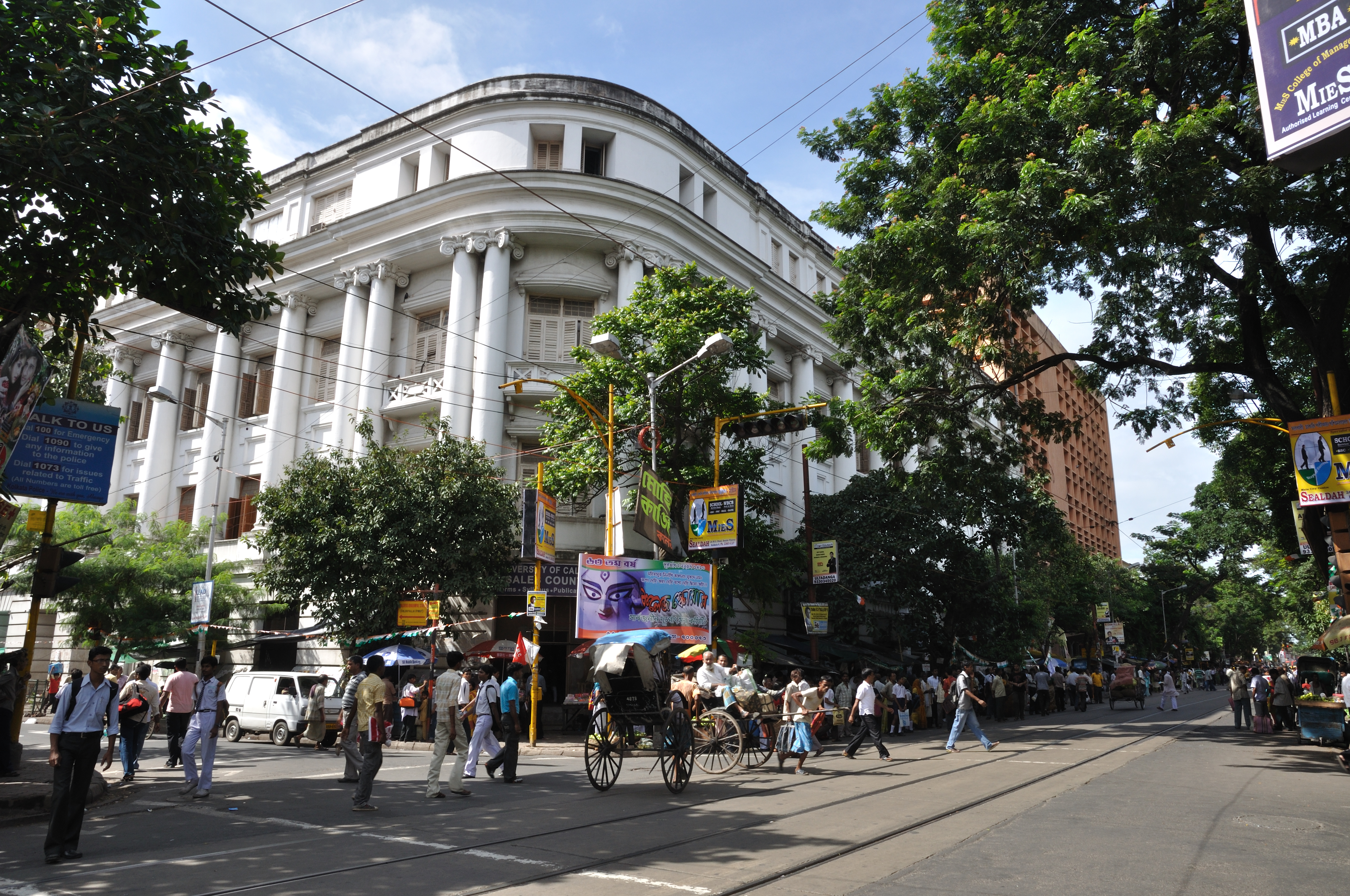 The University of Calcutta (also known as Calcutta University) is a public university located in the city of Kolkata (previously Calcutta), India.